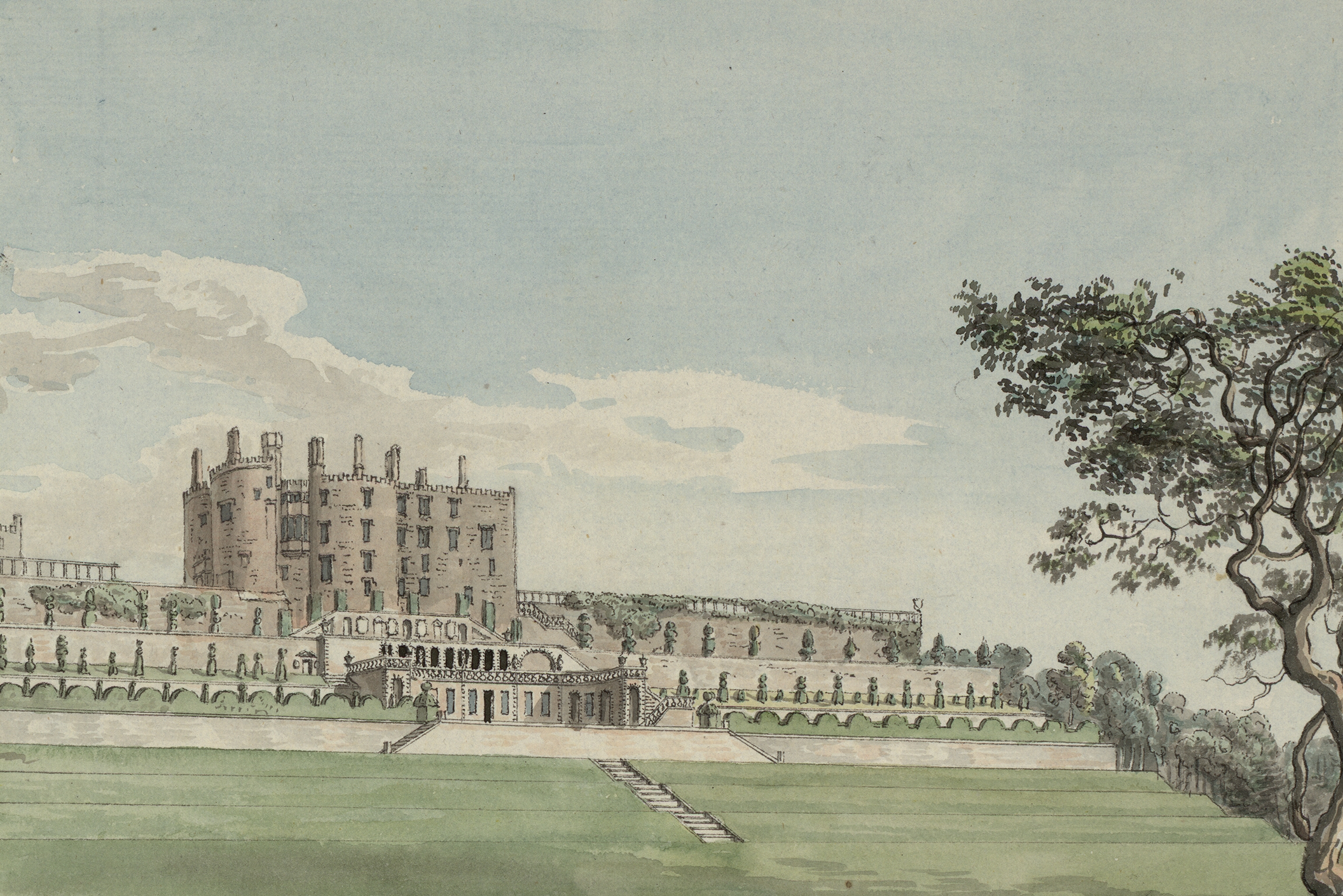 An image from a set of 8 extra-illustrated volumes of A tour in Wales by Thomas Pennant (1726-1798) that chronicle the three journeys he made through Wales between 1773 and 1776. These volumes are unique because they were compiled for Pennant's own library at Downing. This edition was produced in 1781. The volumes include a number of original drawings by Moses Griffiths, Ingleby and other well known artists of the period. Thomas Pennant (1726-1798)